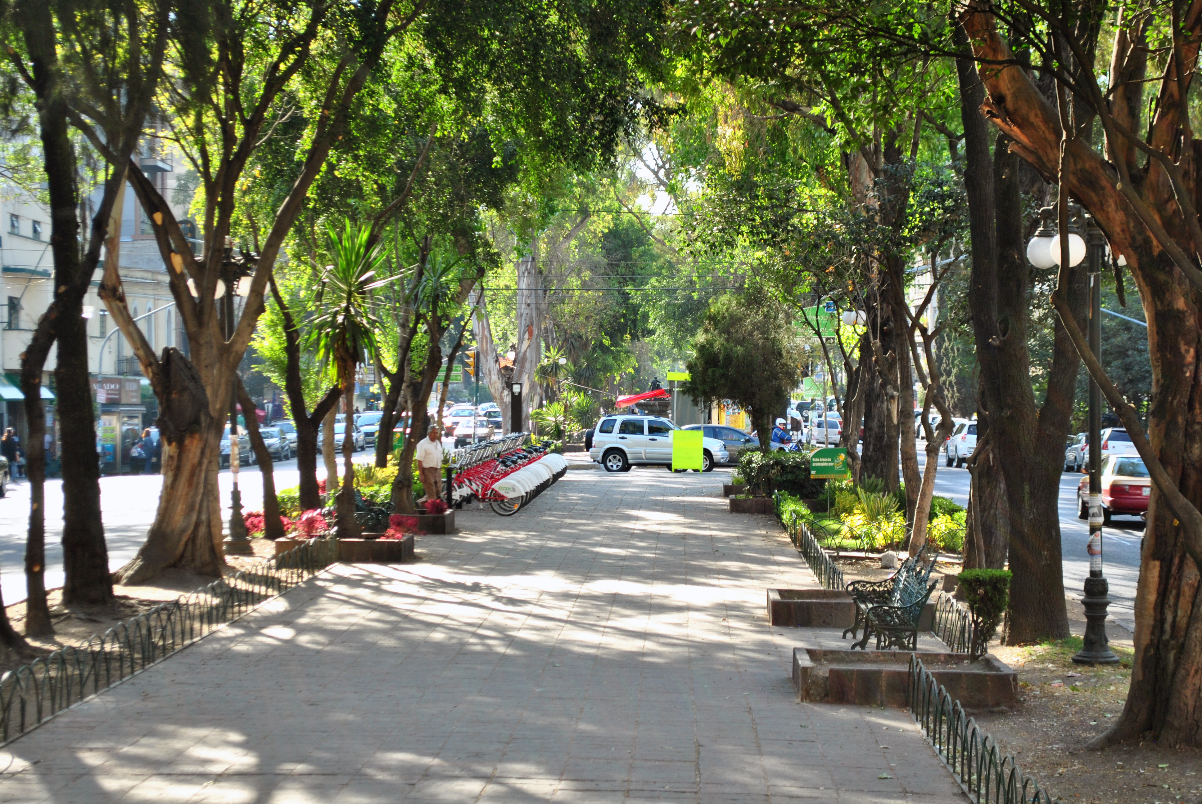 Álvaro Obregón avenue, Colonia Roma, Mexico City